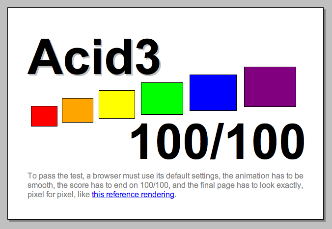 (WebKit-SVN-r31356)